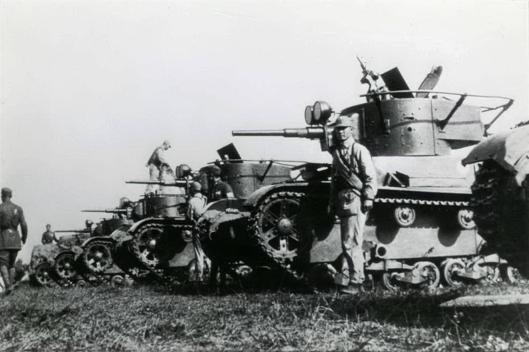 T-26 Tanks at Hunan province